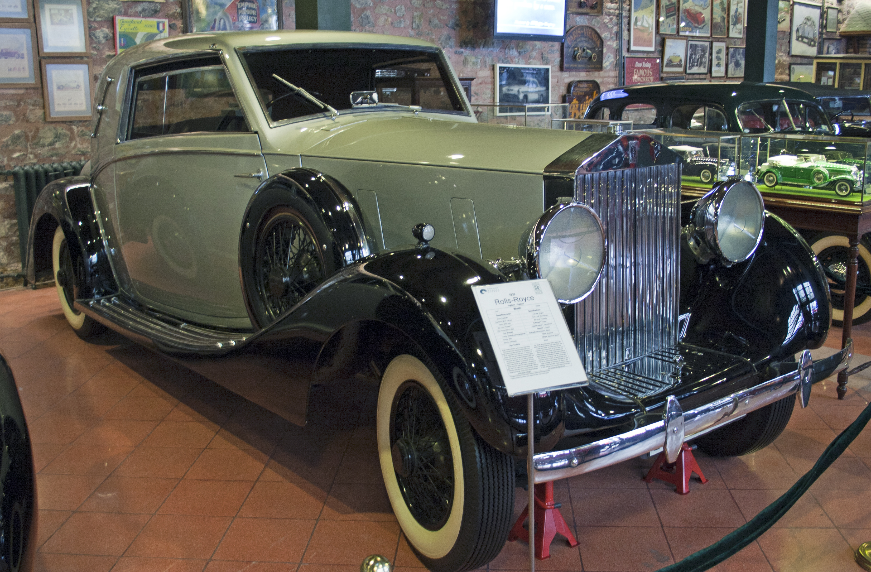 A 1938 Rolls-Royce Wraith coupé on display in the Rahmi M. Koç Museum of Transportation. This car was the 12th Wraith to be built, and was sent to Paris to be bodied by Carrosserie De Villars. The car originally belonged to French actress Gaby Morlay.